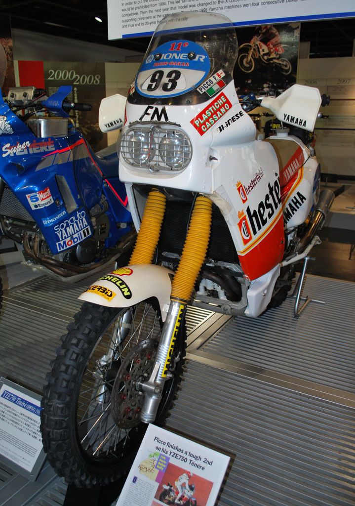 Yamaha YZE750 Tenere ( Franco Picco, Dakar Rally 1989 )